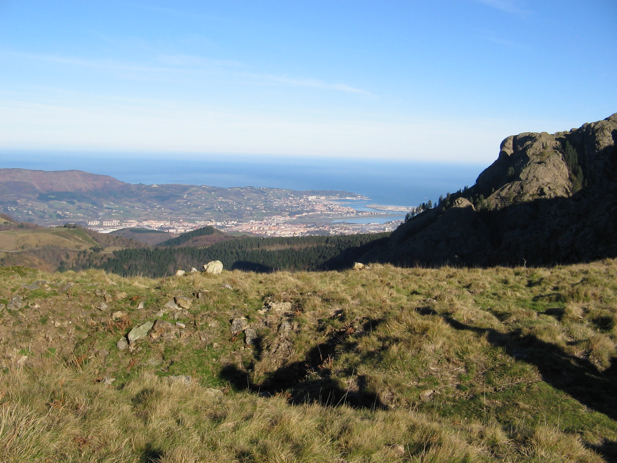 Overview of Irun, Hondarribia and a tip of Hendaia from Aiako Harria, with the Bay of Biscay in the background